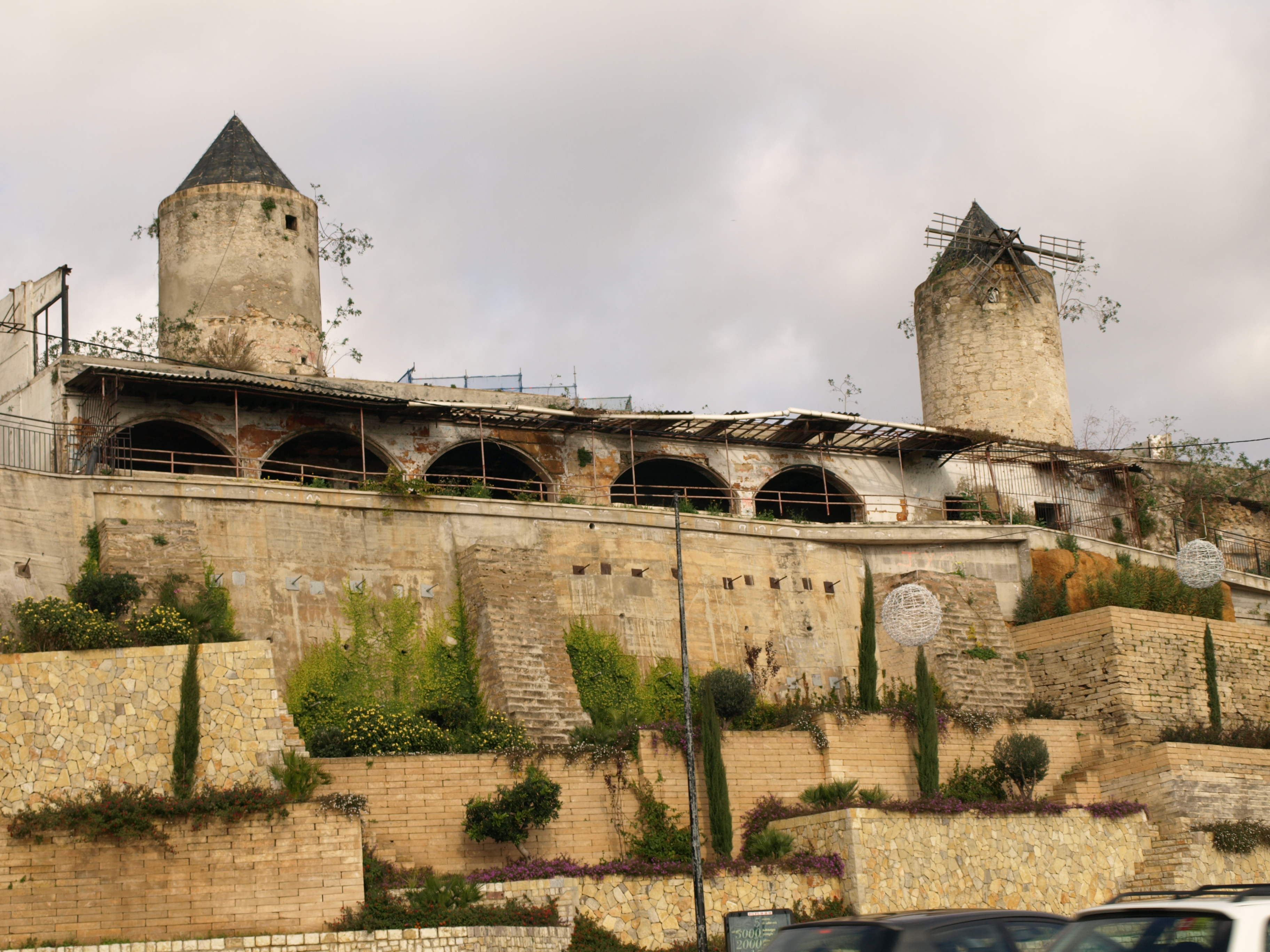 Es Jonquet district windmills Place Lloc/Place: Es Jonquet Palma